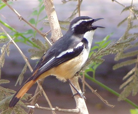 Location: Ngwenya Lodge, Mpumalanga, South Africa. For more info